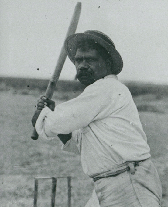 Harry Hewitt playing cricket in Victor Harbor in 1905. In this photo he is around the age of 42-43. Other information This photo contains images of deceased Indigenous Australians and care should be taken when used to avoid distress to relatives.